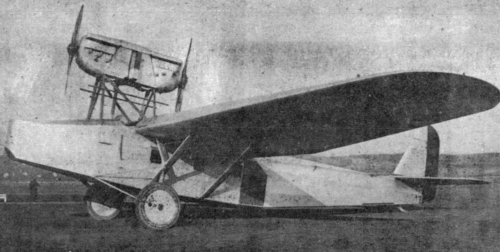 Comte AC-3 photo from NACA Aircraft Circular No.122